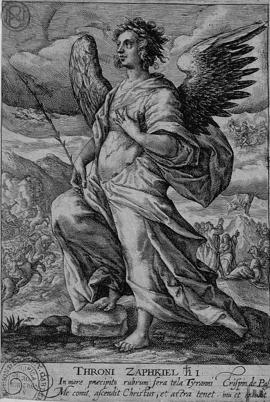 The Thrones – Archangel Zaphkiel – The Planet Saturn – The Number One